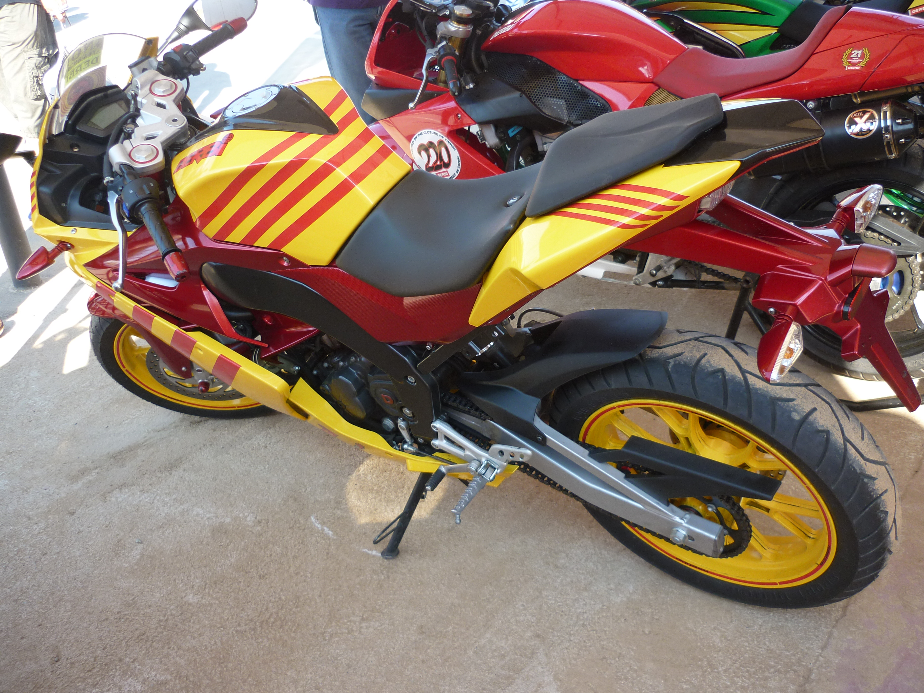 Derbi GPR 50 painted in the colors of Catalan flag. Motorcycle meeting held on September 10, 2011 in Can Carrancà (near the Derbi factory in Martorelles, Catalonia).